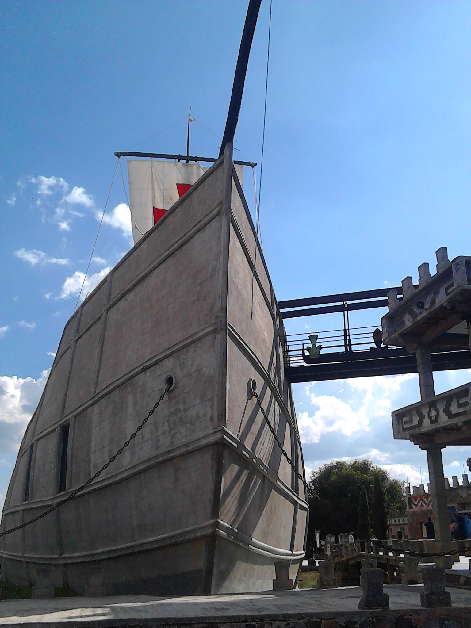 Main facade of La Barca de la Fe Nāhuatl: La Barca de la Fe